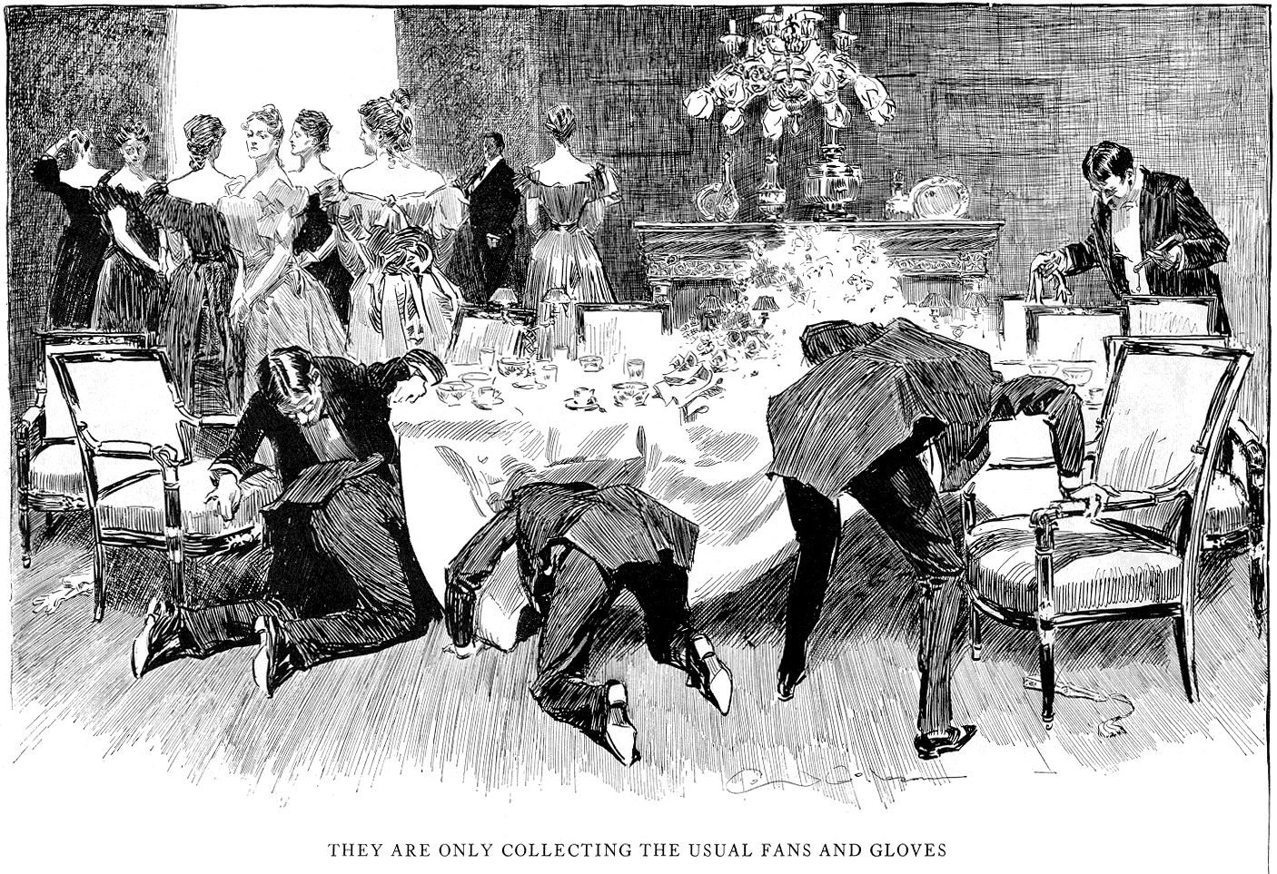 Charles Dana Gibson, "They are only collecting the usual fans and gloves", a caricature showing Gibson girls waiting for their escorts to perform a ritual of masculine chivalry of the period (recovering items of the womens' paraphernalia that were set aside when they ate).